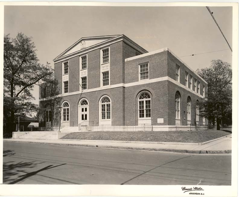 The G. Ross Anderson, Jr. Federal Building in Anderson, South Carolina in 1938